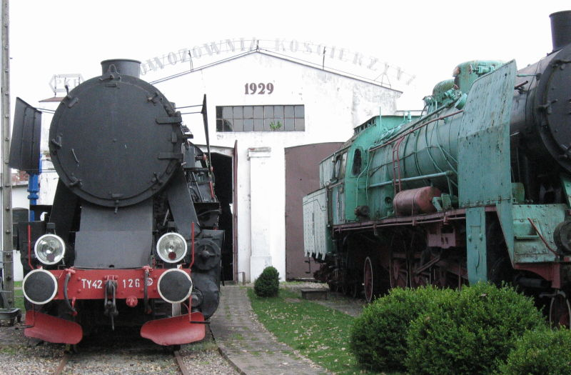 Steam park in Koscierzyna, Poland. Author Rafal Konkolewski 2004